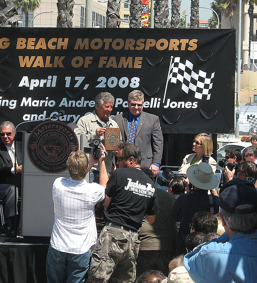 Long Beach Motorsports Walk of Fame ceremony honoring Mario Andretti. City of Long Beach, City Manager Patrick West presenting the award.